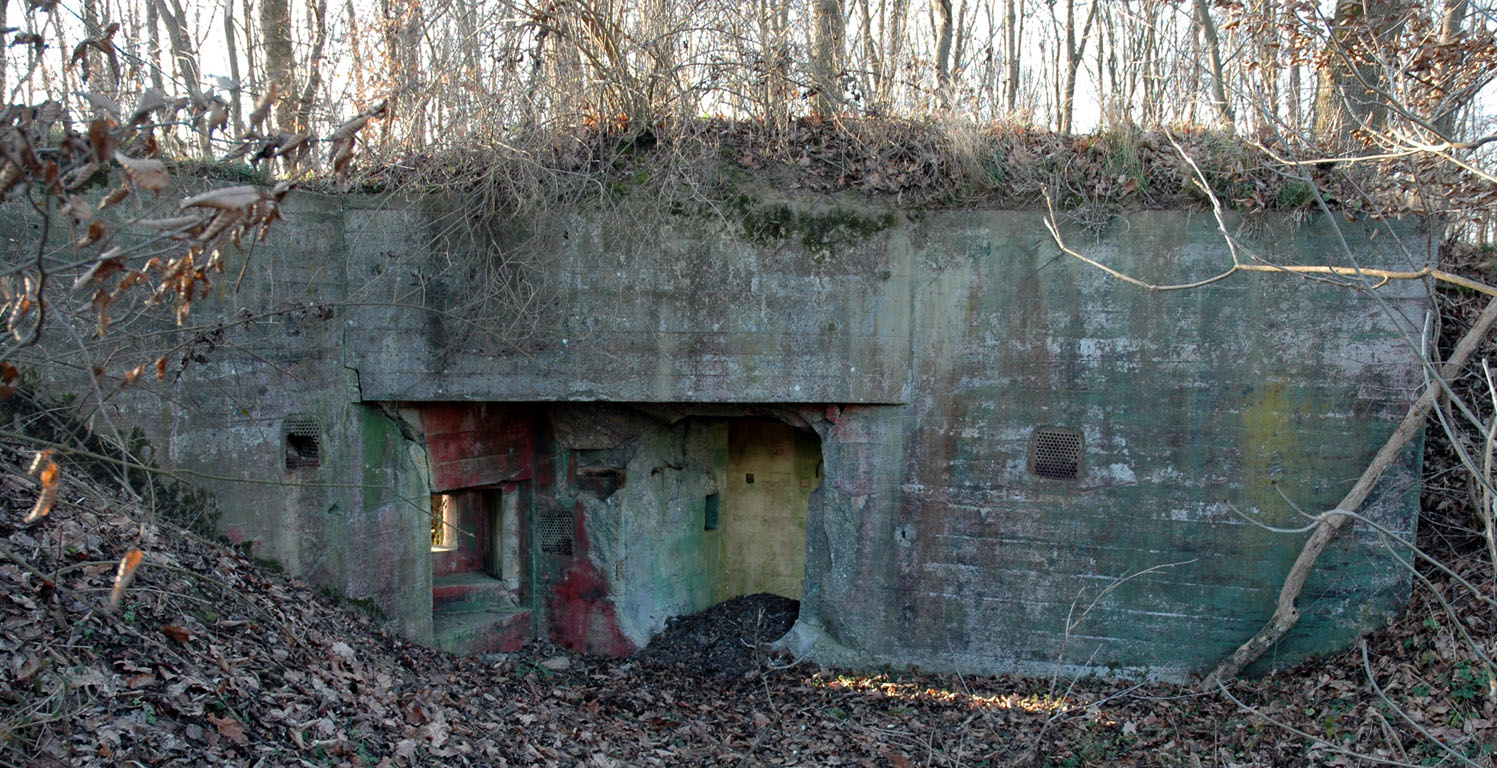 Entrance area of bunker 119 of the Neckar-Enz-Stellung near Offenau.